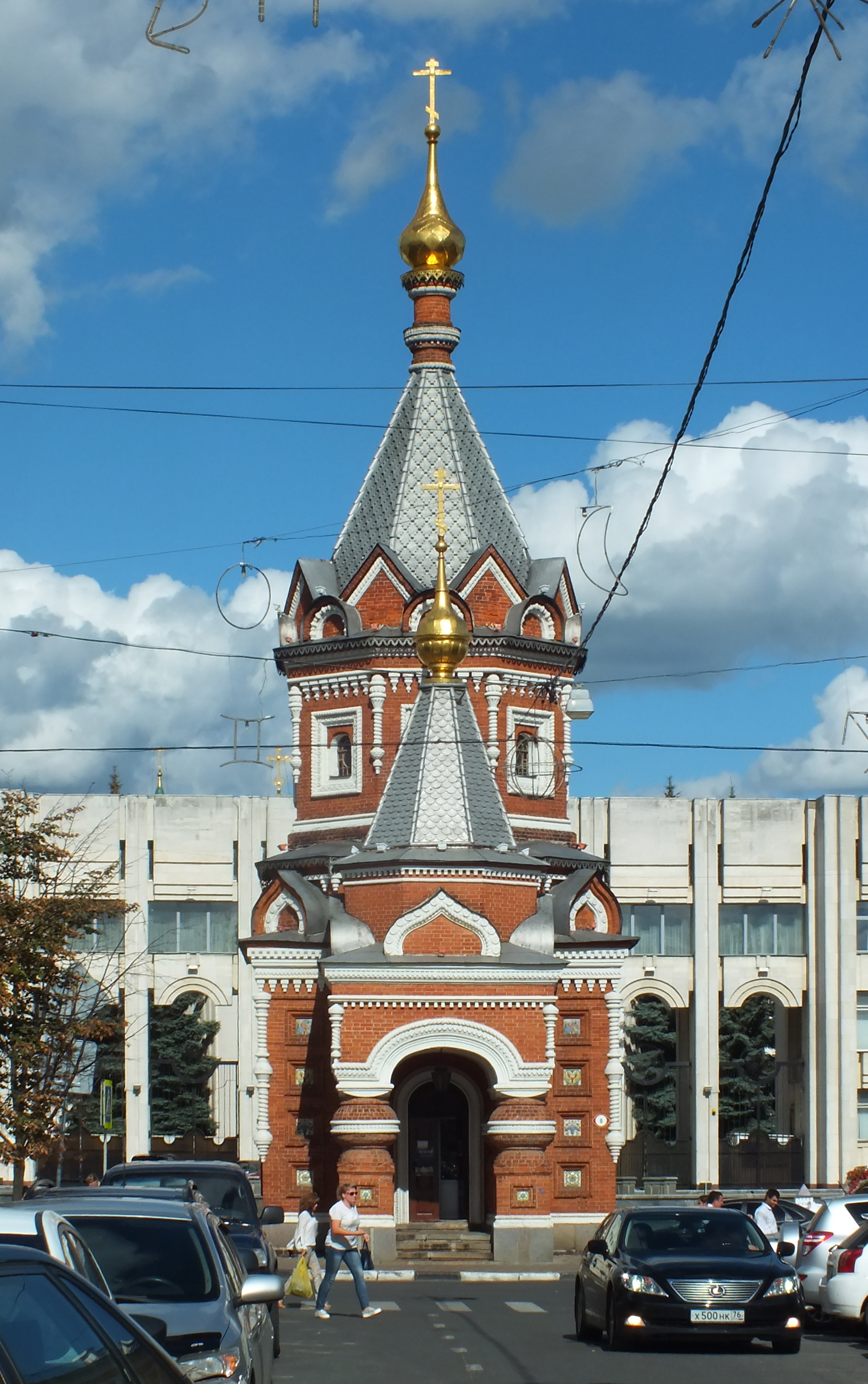 View of Chapel of Alexander Nevsky from Deputatskaya Street in Yaroslavl